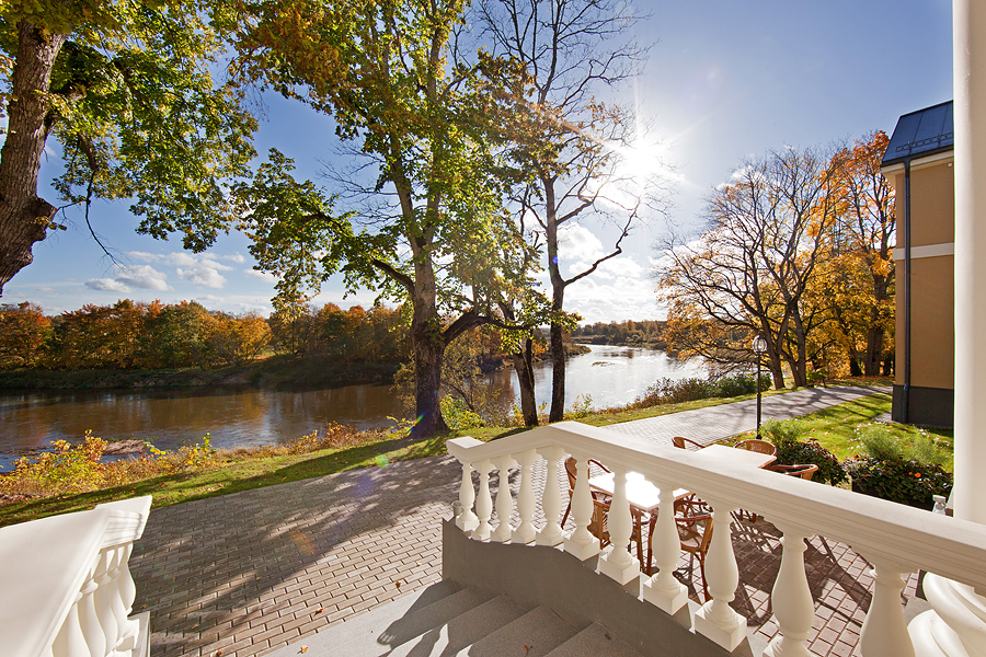 Skrundas muiža, Skats uz Ventu